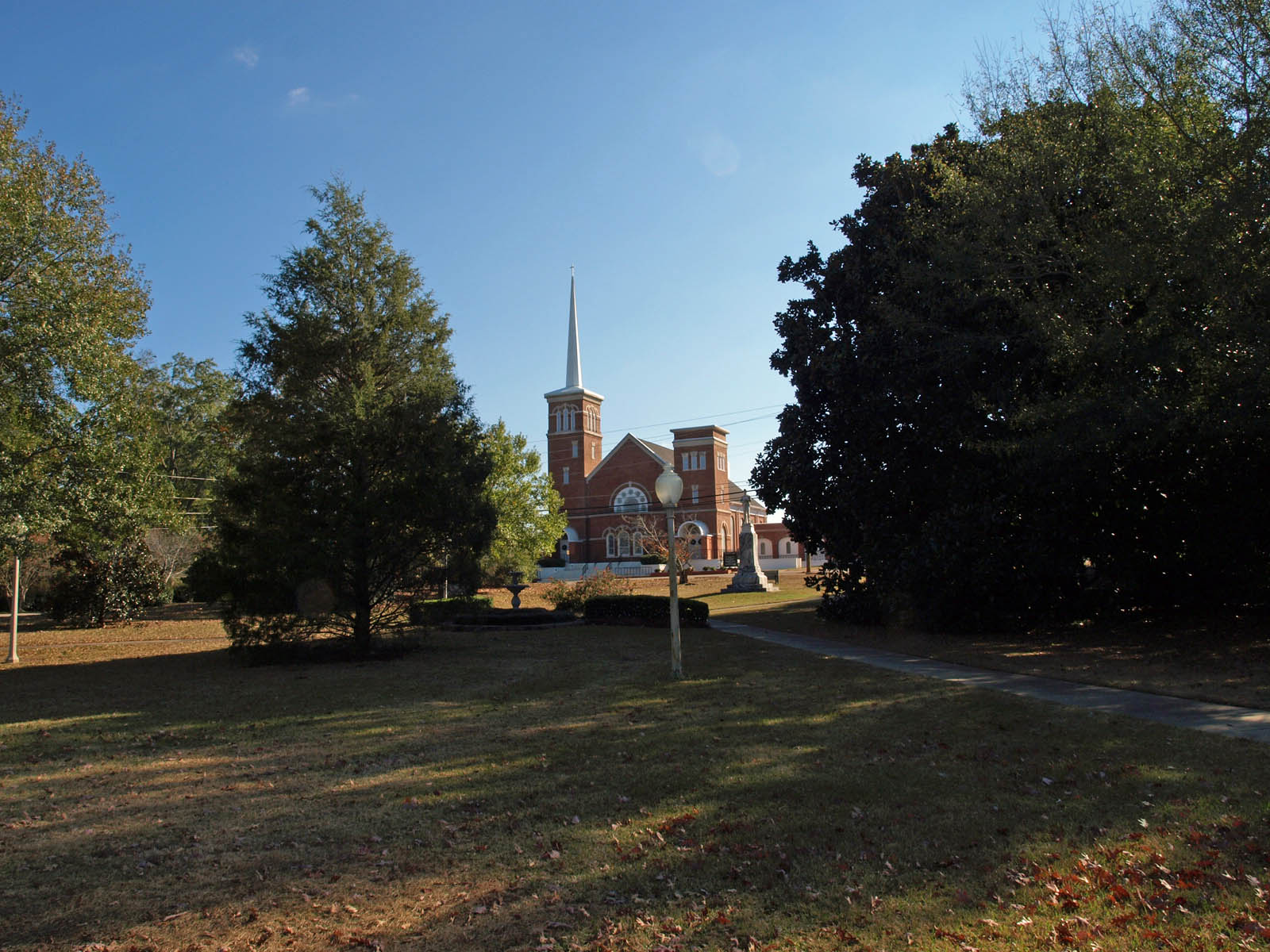 Confederate Park in front of First Methodist Church in Greenville, Alabama, listed on the National Register of Historic Places